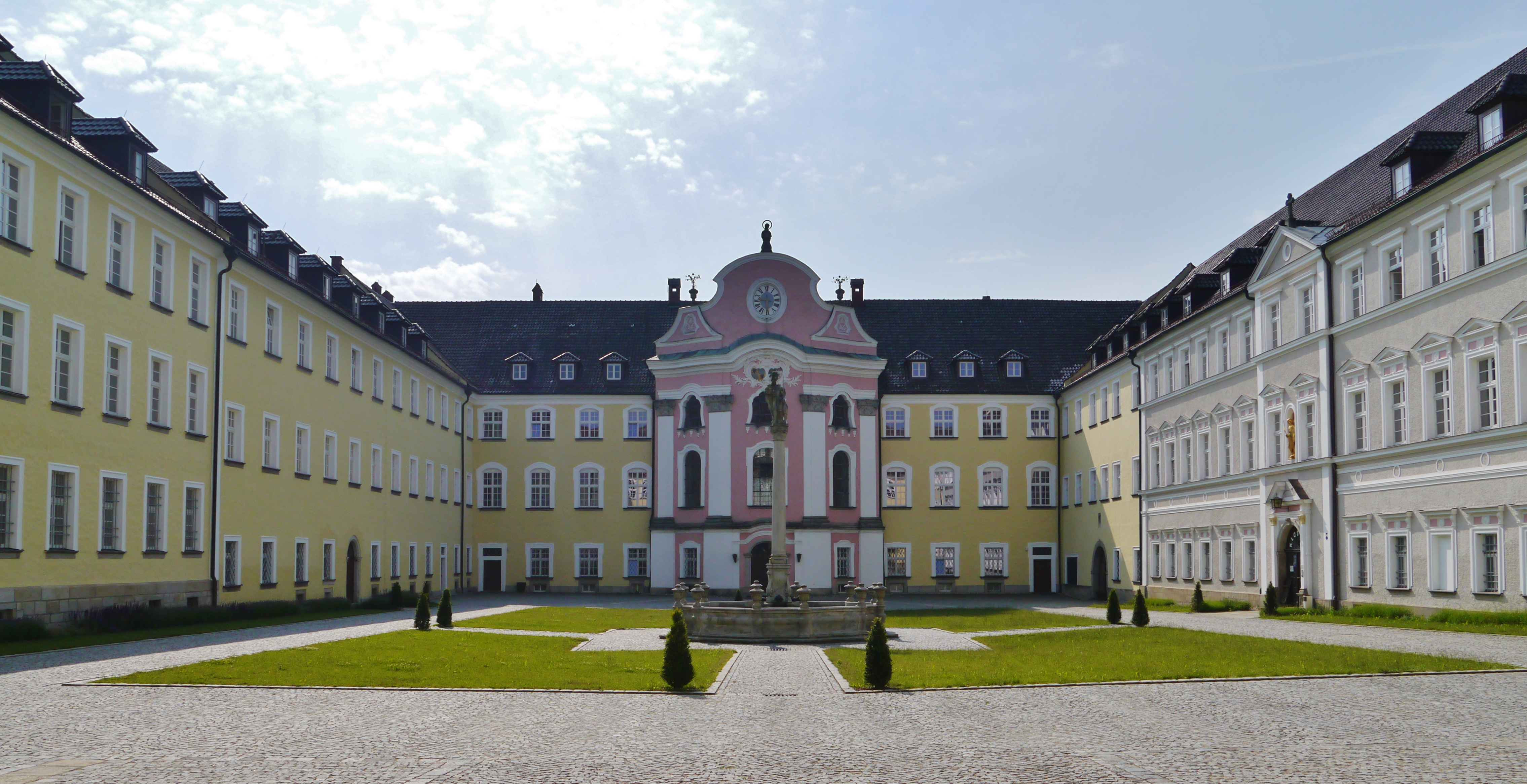 Courtyard of Metten Monastery, Metten, Bavaria, Germany